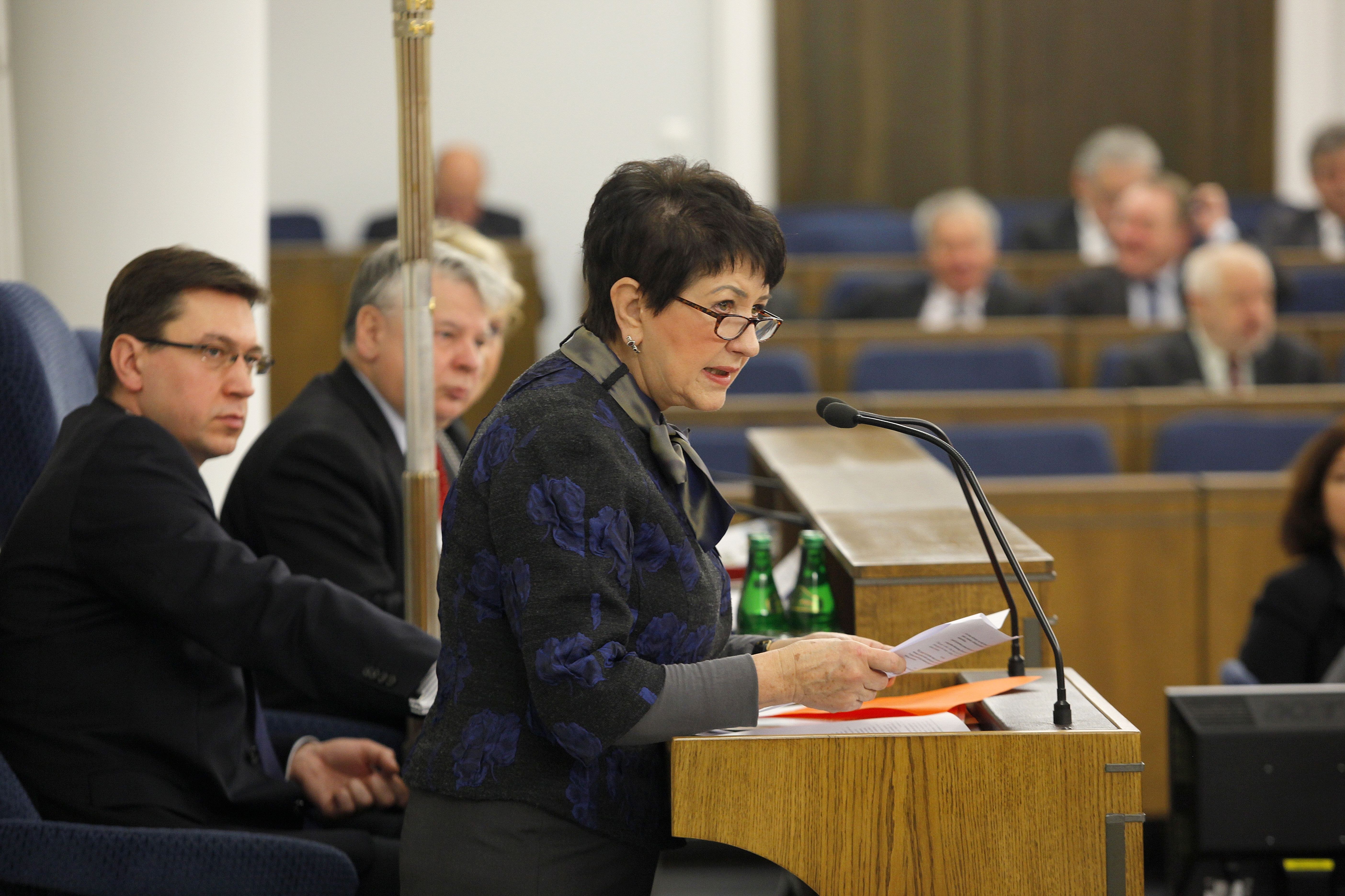 Senator Jadwiga Rotnicka. 26th sitting of the Polish Senate.